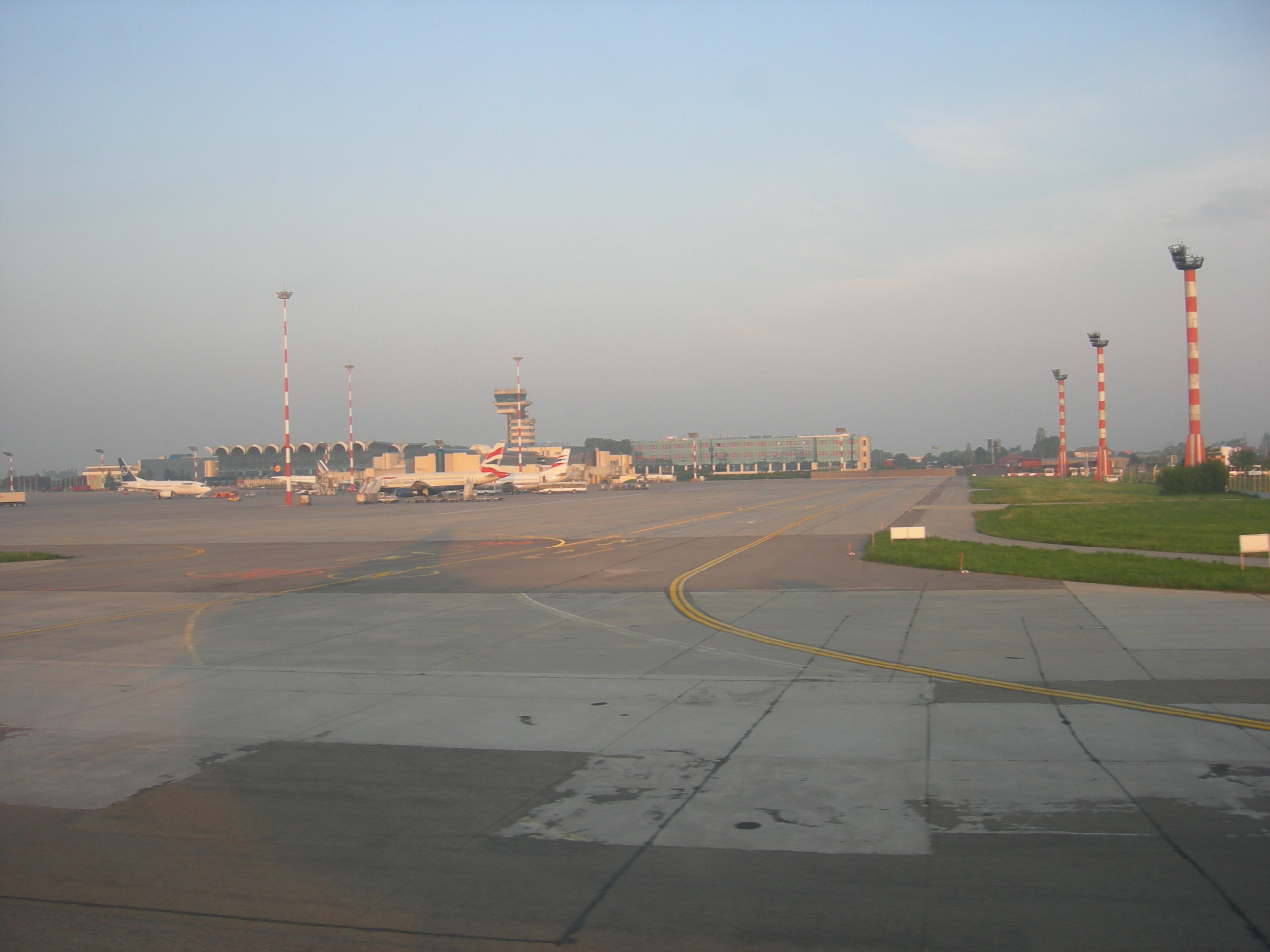 Henri Coandă International Airport, Otopeni, Romania, near Bucharest. View from the runway.